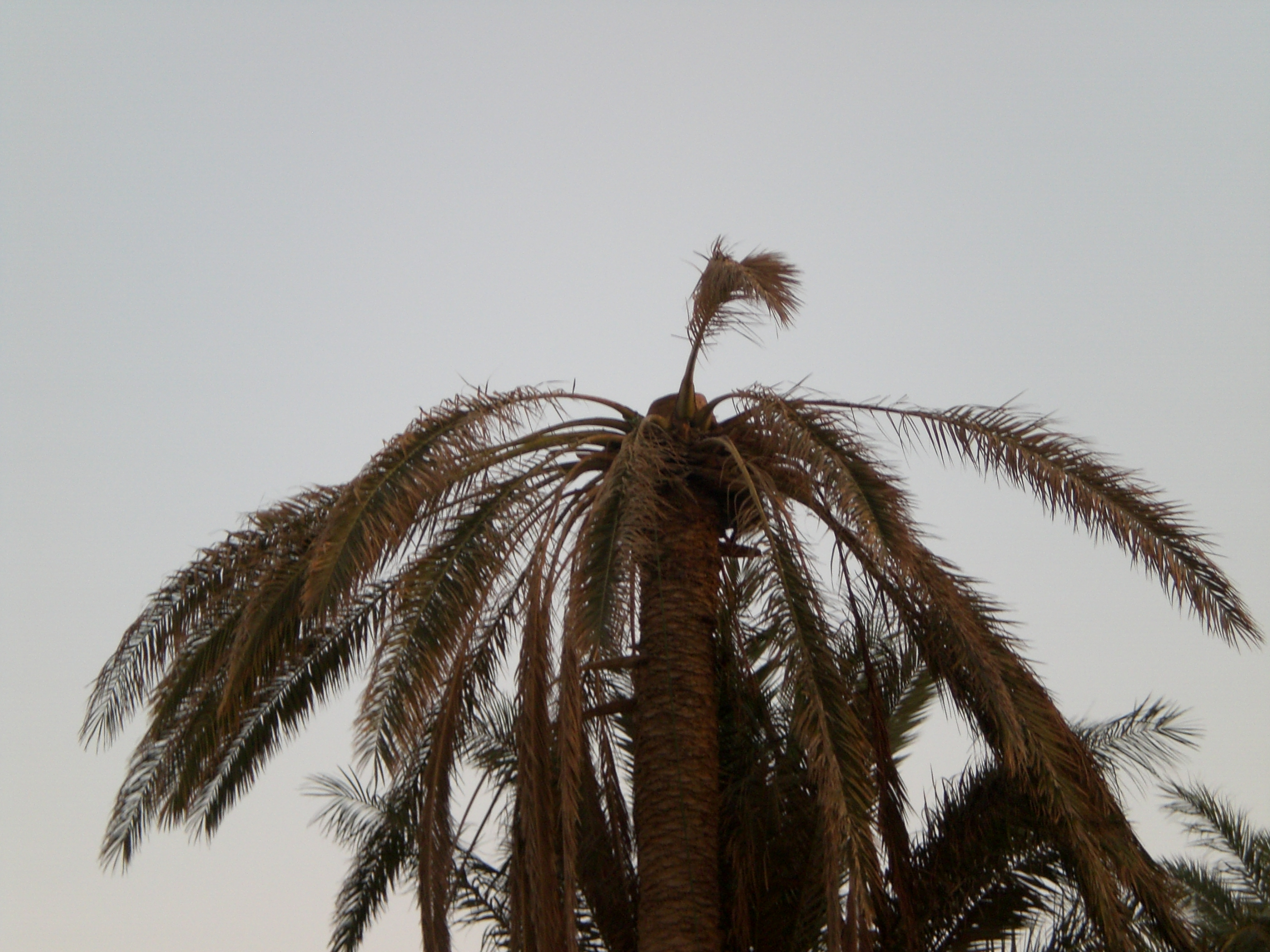 Palm tree (Lagmia)